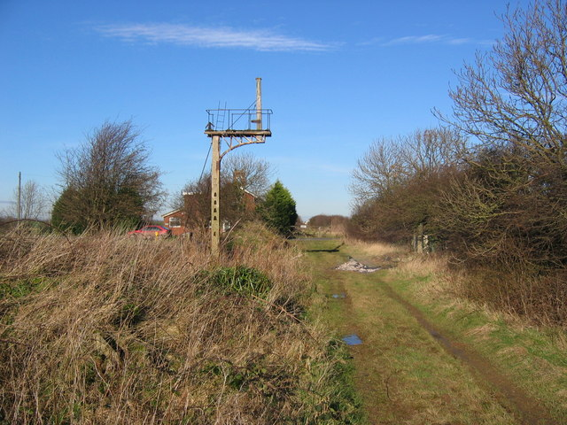 Former Rail Track